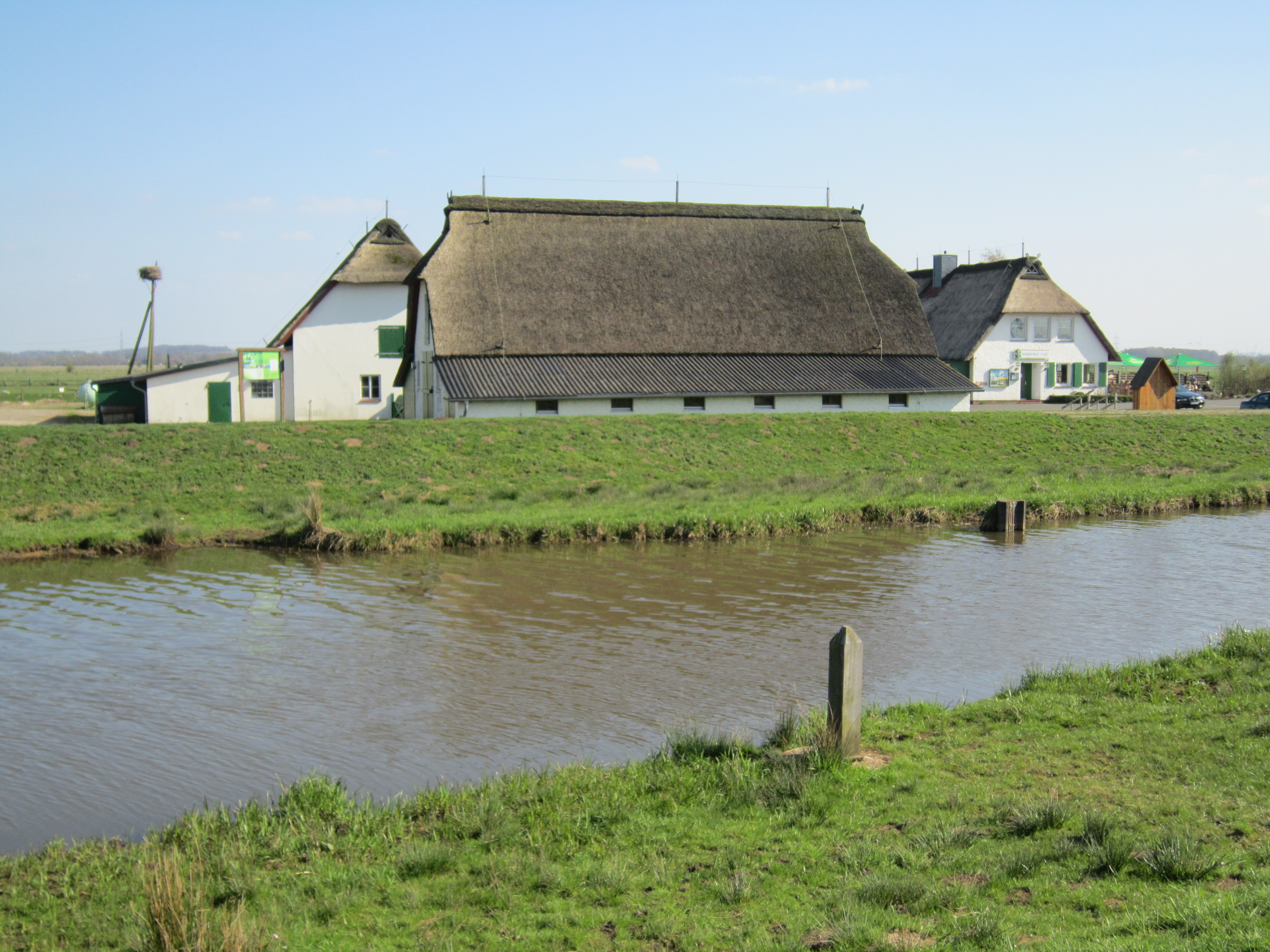 River Hunte; behind the dam the "Schäferhof" (shepherd's courtyard)